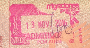 Peru entry stamp 2016